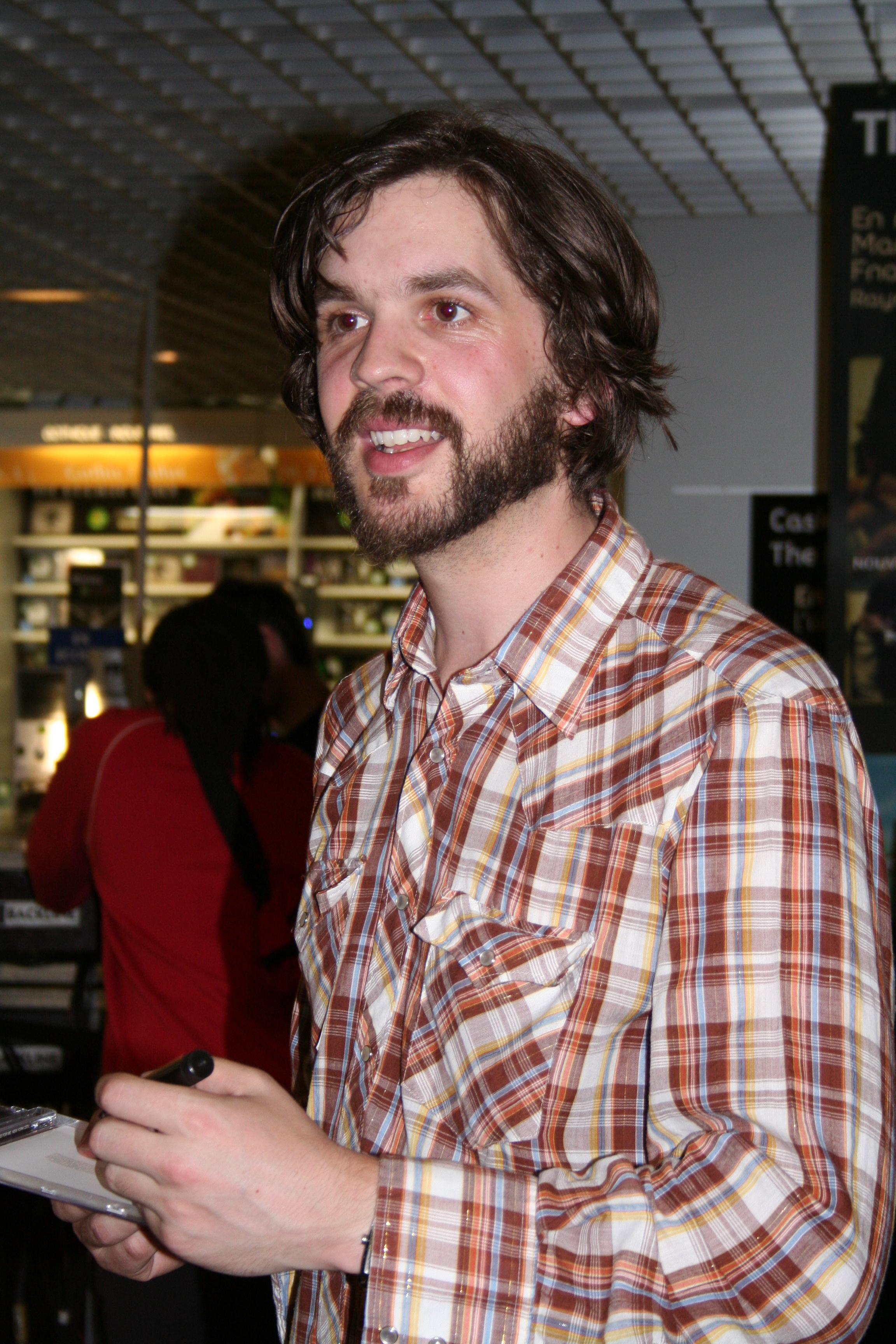 Show-case with Thomas Dybdahl at Fnac des Halles (Paris, France).